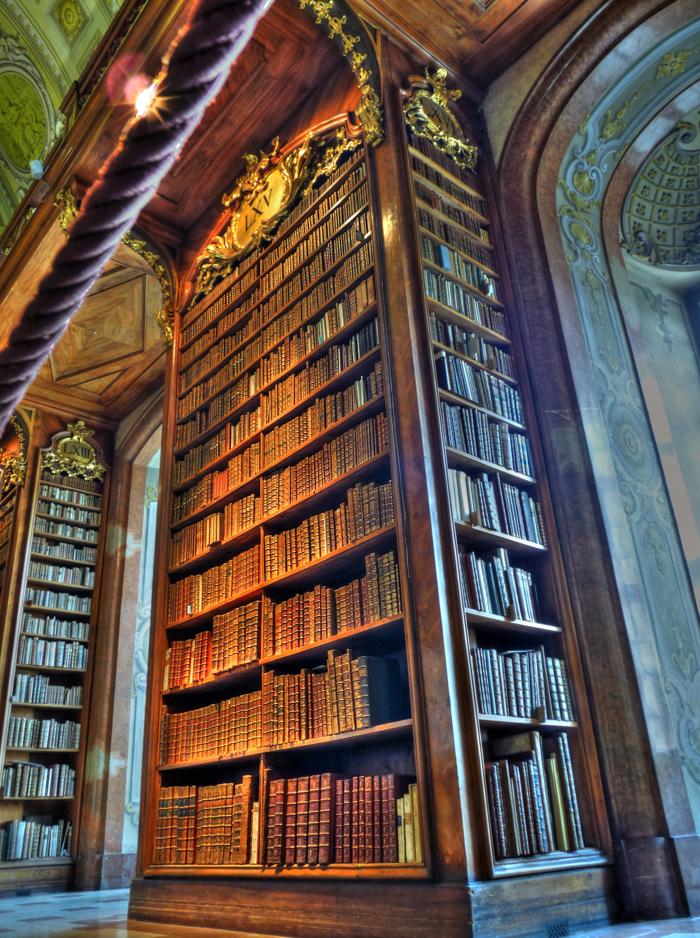 State Hall of the Austrian National Library, Vienna. Bookcase LXV. July 2009. Original description by joiseyshowaa: Vienna. Books spanning the most recent several centuries...